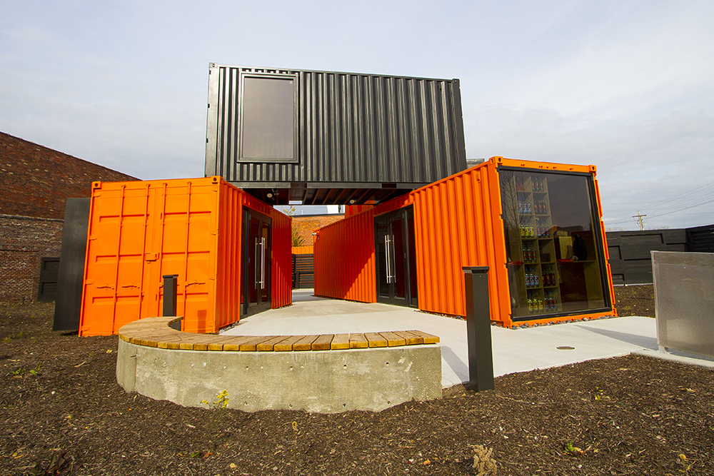 Shipping containers used as a retail shop and visitors center outside of Copper & Kings Brandy Distillery